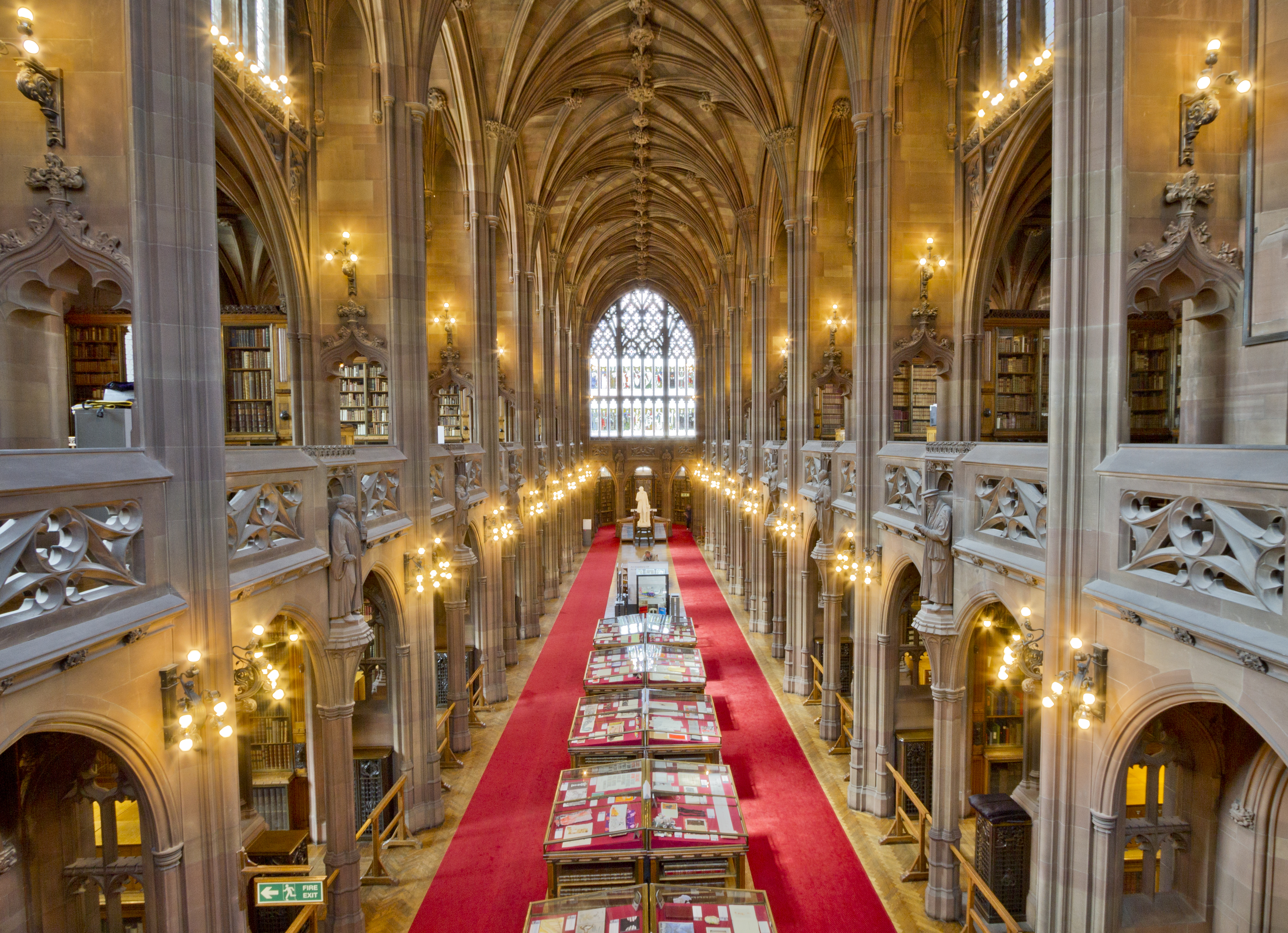 Here is a photograph taken from inside The John Rylands Library, which is part of The University of Manchester. Located in Manchester, England, UK.